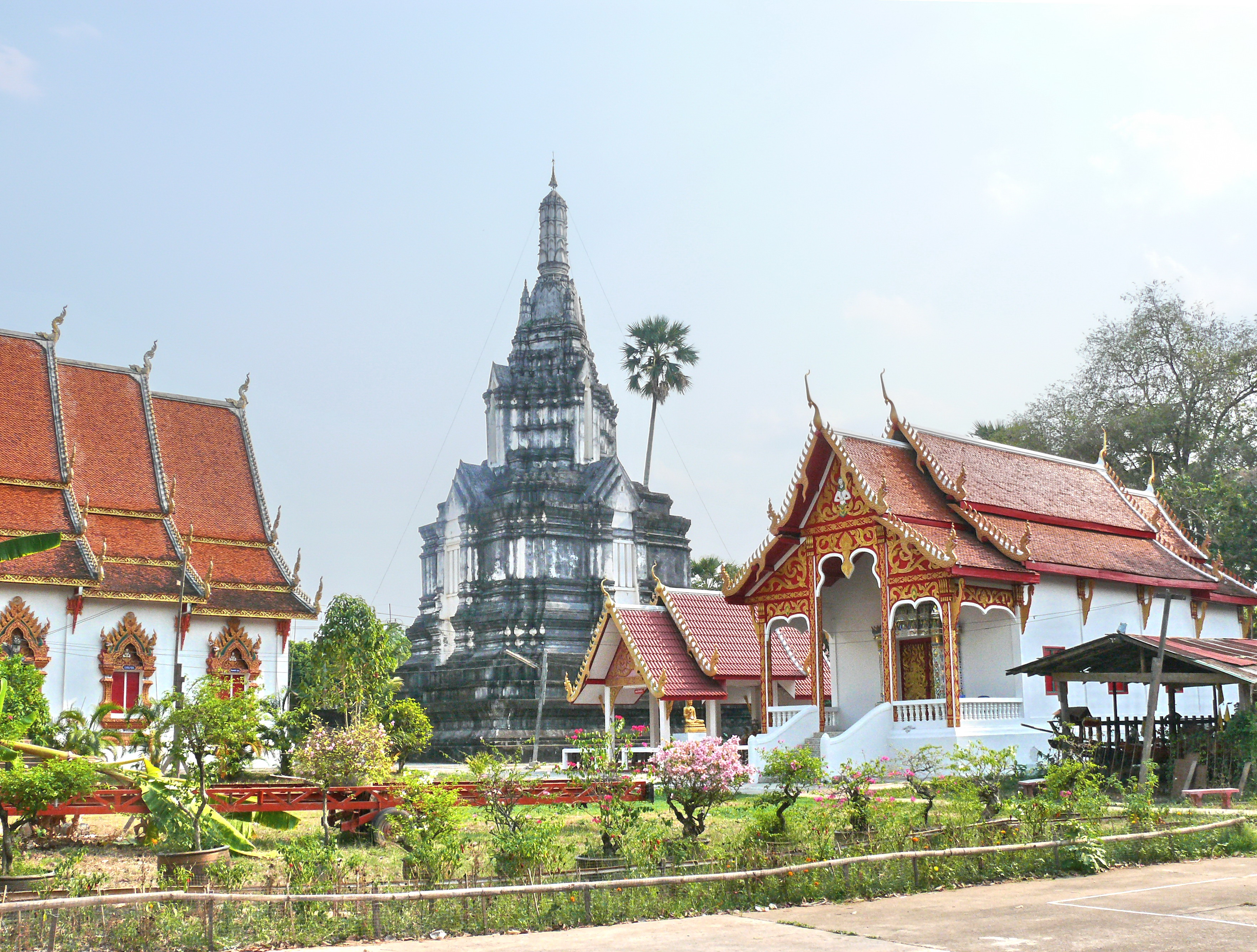 Garden, temples, and chedi (stupa) - at Wat Suan Tan, in Nan, Thailand.